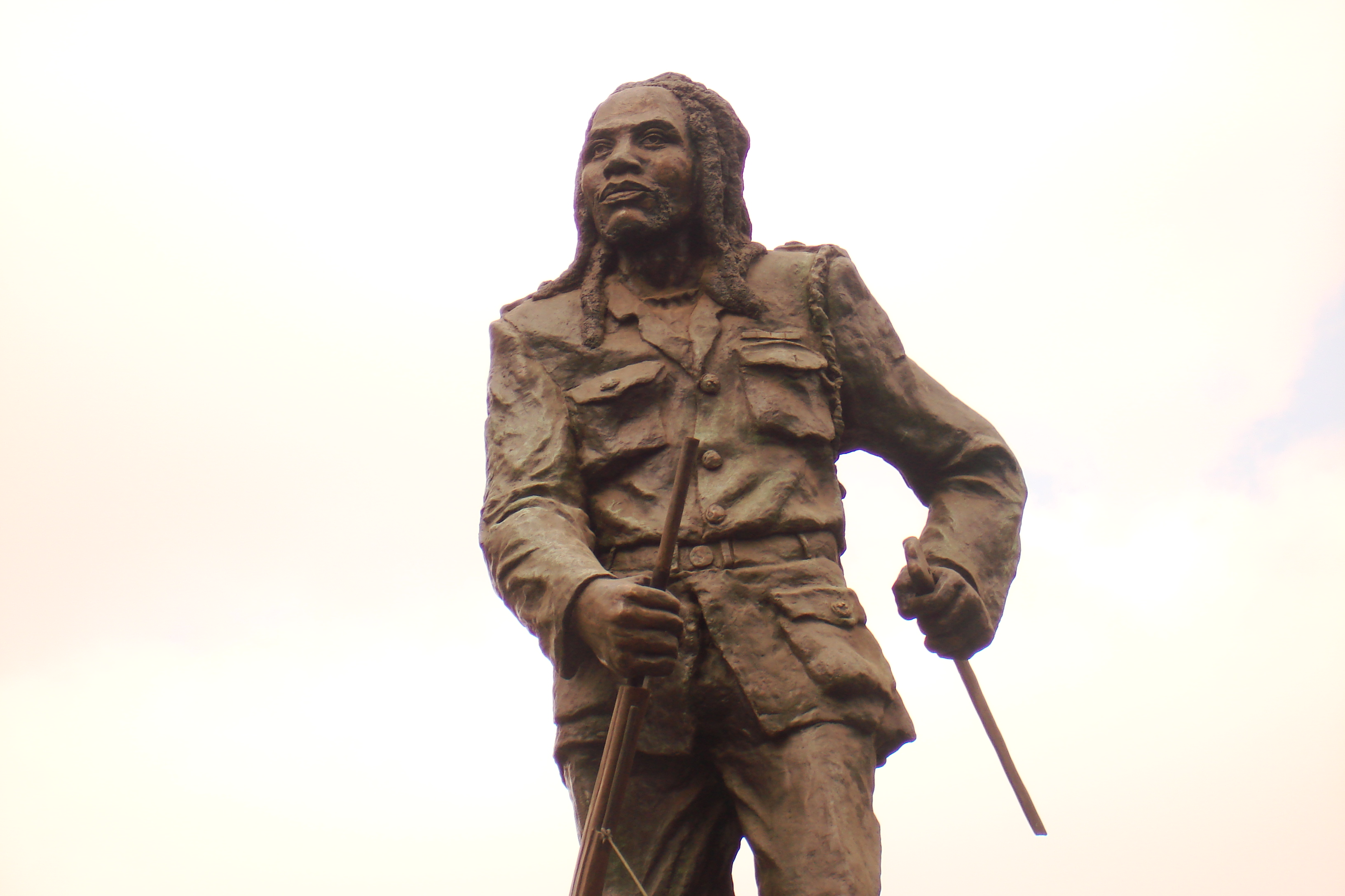 Statue of Dedan Kimathi in Nairobi, Kenya. Dedan Kimathi Waciuri (truly, Kimathi wa Waciuri), Field Marshal, (October 31, 1920 – February 18, 1957) was a Kenyan rebel leader who fought against British colonization in Kenya in the 1950s. He was convicted and executed by the British colonial government.